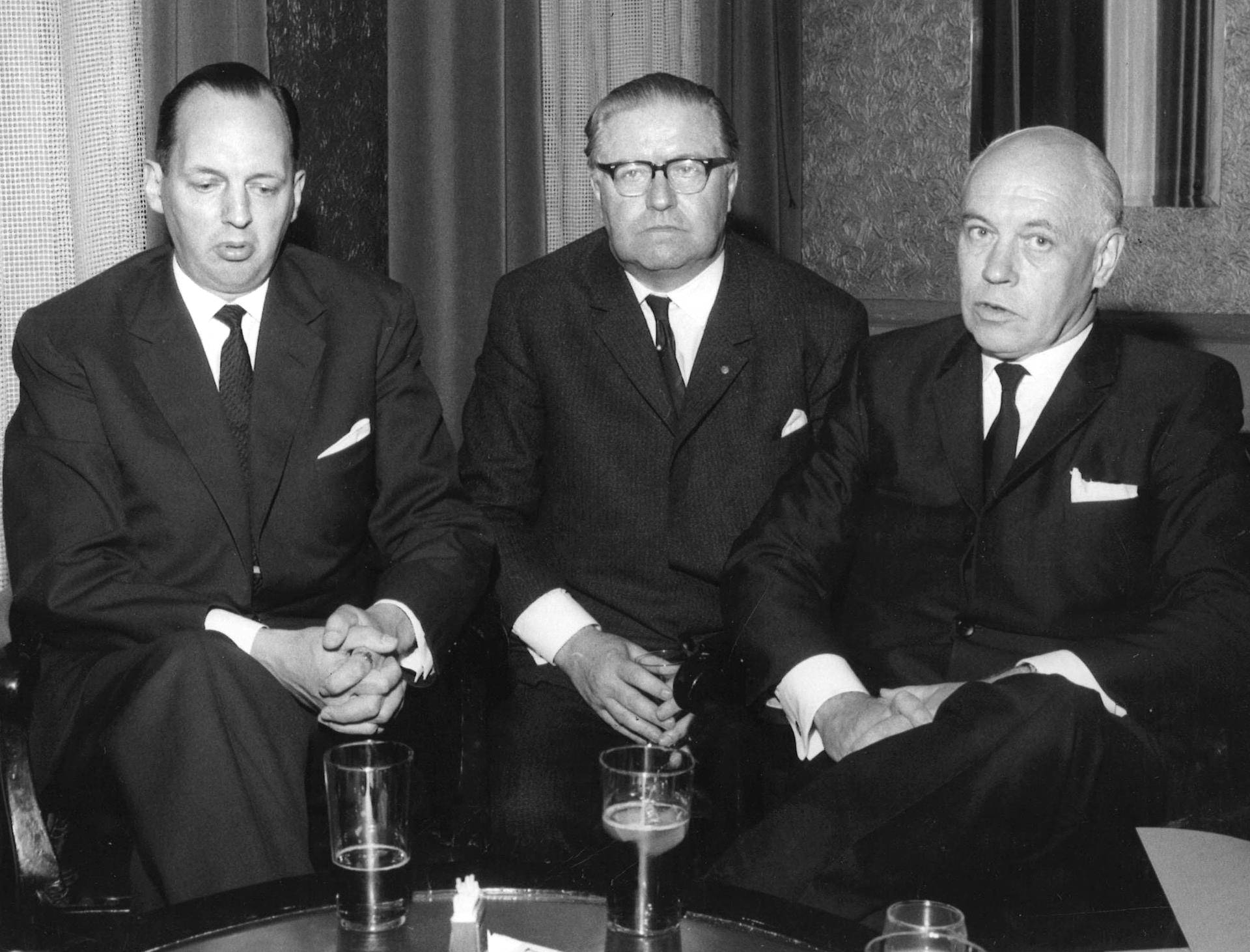 Photograph of three executives at Nokia Oy: Bengt Widing, Jarl Hohenthal and Björn Westerlund.